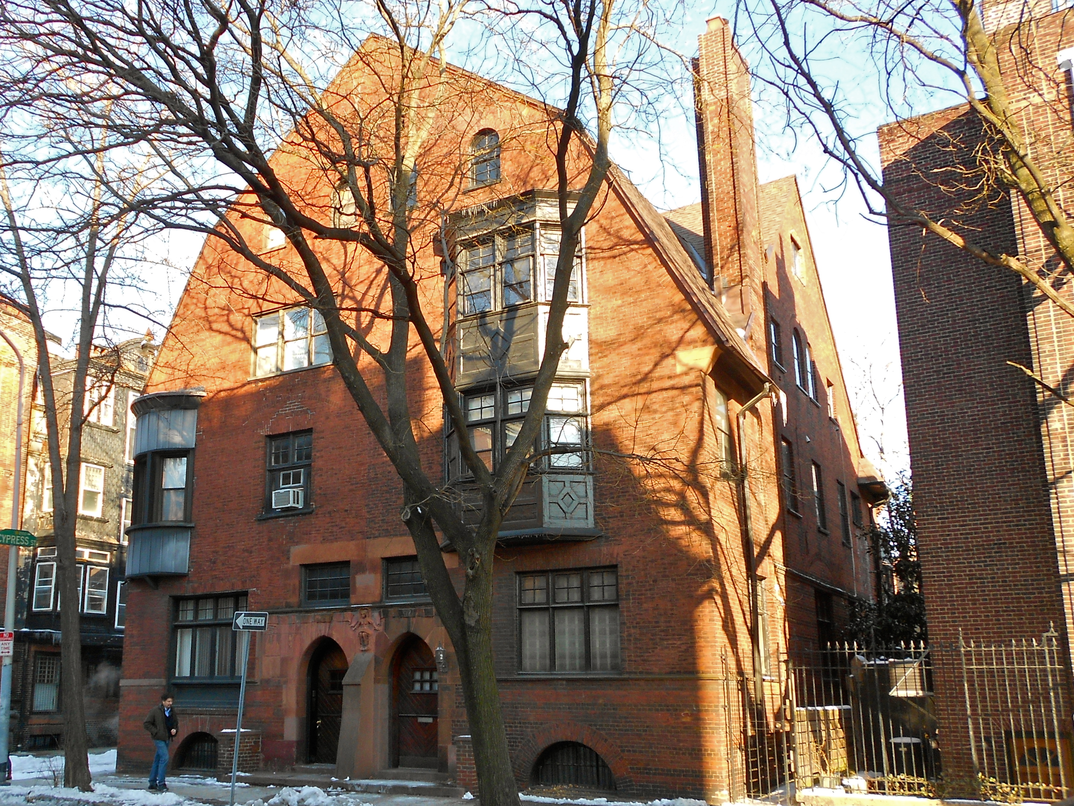 Neill-Mauran House listed on the NRHP on June 30, 1980 at 315–317 South 22nd Street in the Rittenhouse Square West neighborhood of Philadelphia. Wilson Eyre, architect